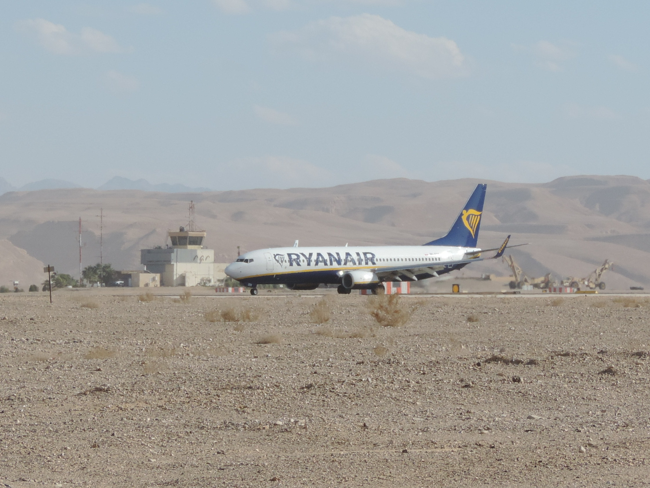 SP-RSF near Ovda control tower.